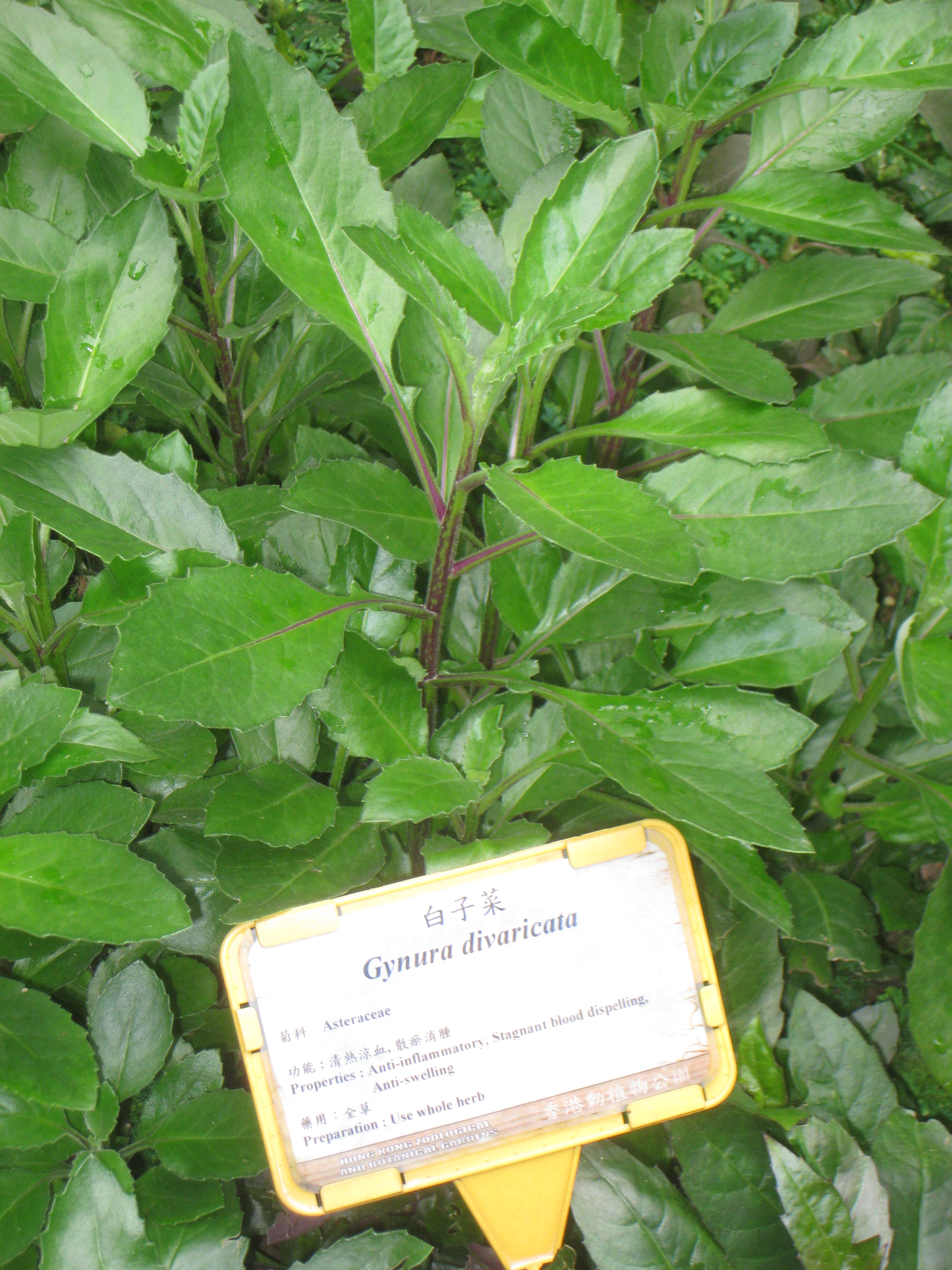 Gynura divaricata. Plant specimen in the Hong Kong Zoological and Botanical Gardens, Hong Kong.